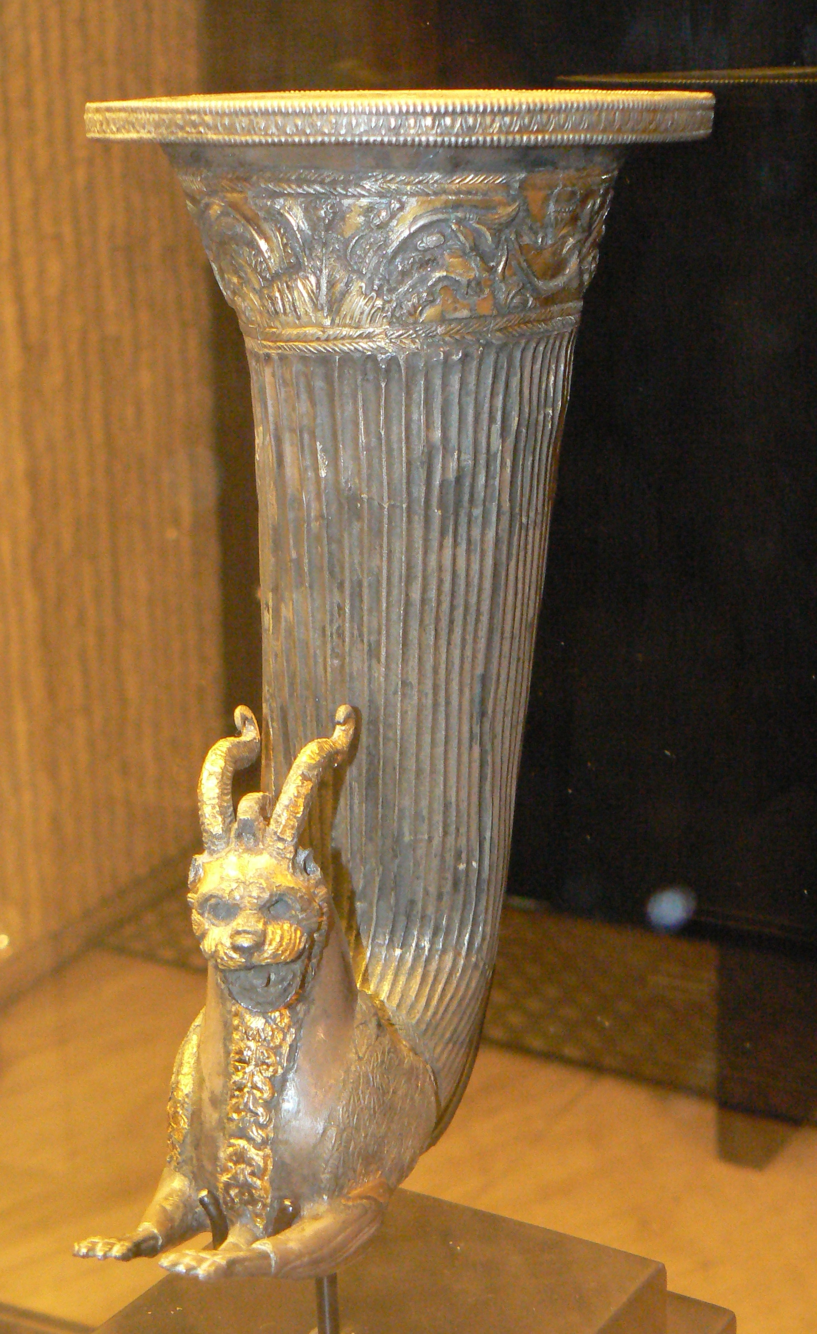 Rhyton with running lion-gryphon, 2-1 century BC. Exhibit of the National History Museum of Bulgaria